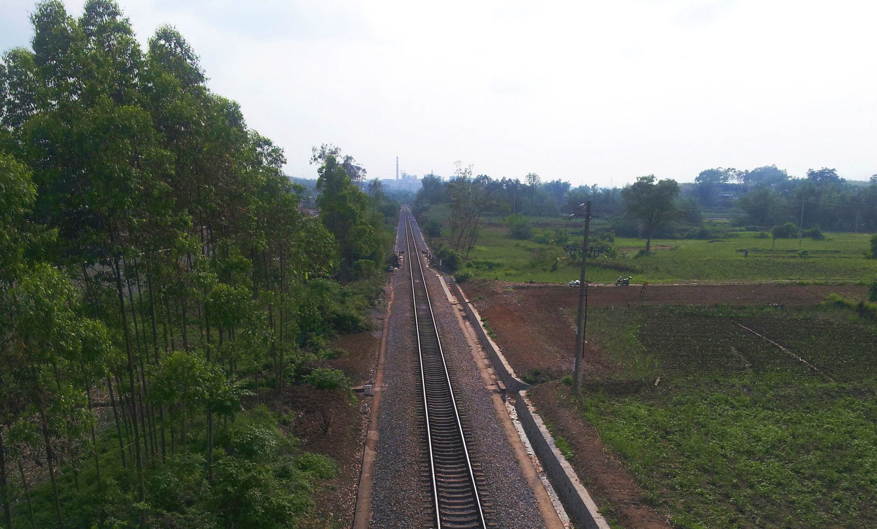 Hunan-Guangxi railway, near Ningming railway station.